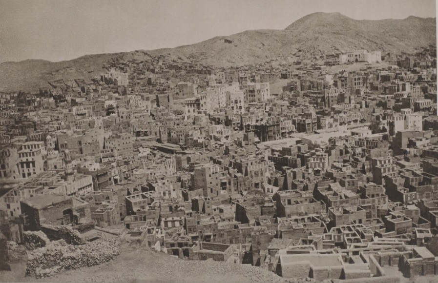 Mecca in the 1880s. Cropped from original.